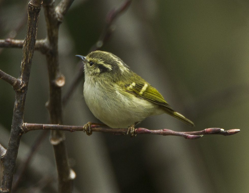 Blyth's Leaf-Warbler - Bhutan_S4E8199